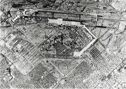 Davis-Monthan Air Force Base Arizona Aerial Photo - 1982